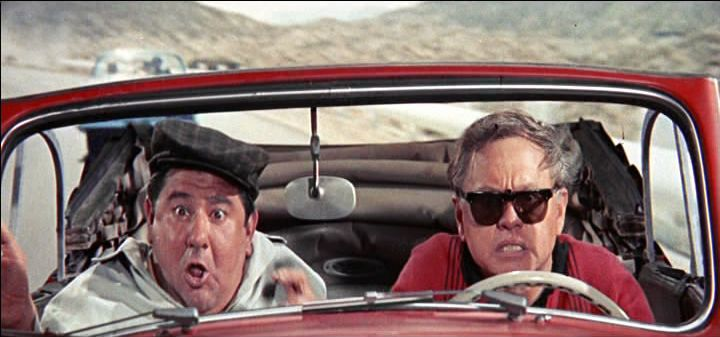 Buddy Hackett and Mickey Rooney in It's a Mad, Mad, Mad, Mad World (1963)